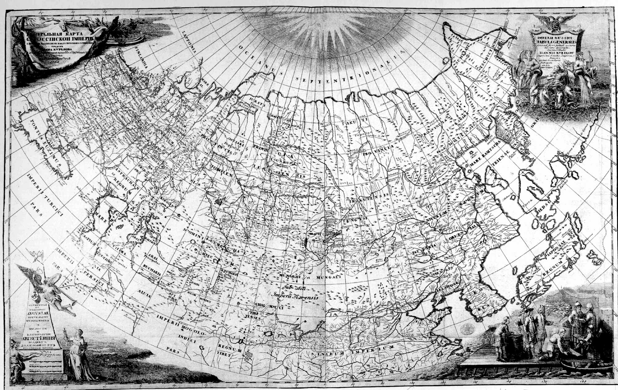 First general map of the Russian Empire, made by I.K. Kirilov